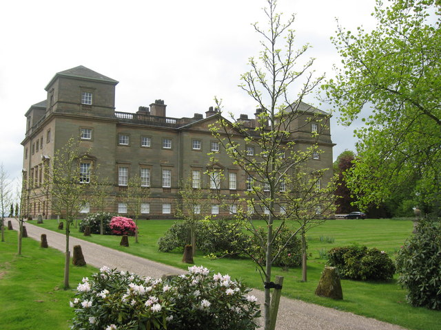 The back facade (facing north-east) of Hagley Hall, Worcestershire. Hagley Hall and Park was largely the creation of one man, George, 1st Lord Lyttelton (1709-73), secretary to Frederick, Prince of Wales. The final designs were drawn up by the gentleman-architect Sanderson Miller of Radway in Warwickshire and the Hall was built between 1754 and 1760. The view is of the back of the hall taken from near the Parish Church